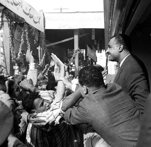 Egyptian President Gamal Abdel Nasser addressing the people of Beni Suef during a visit to the city.